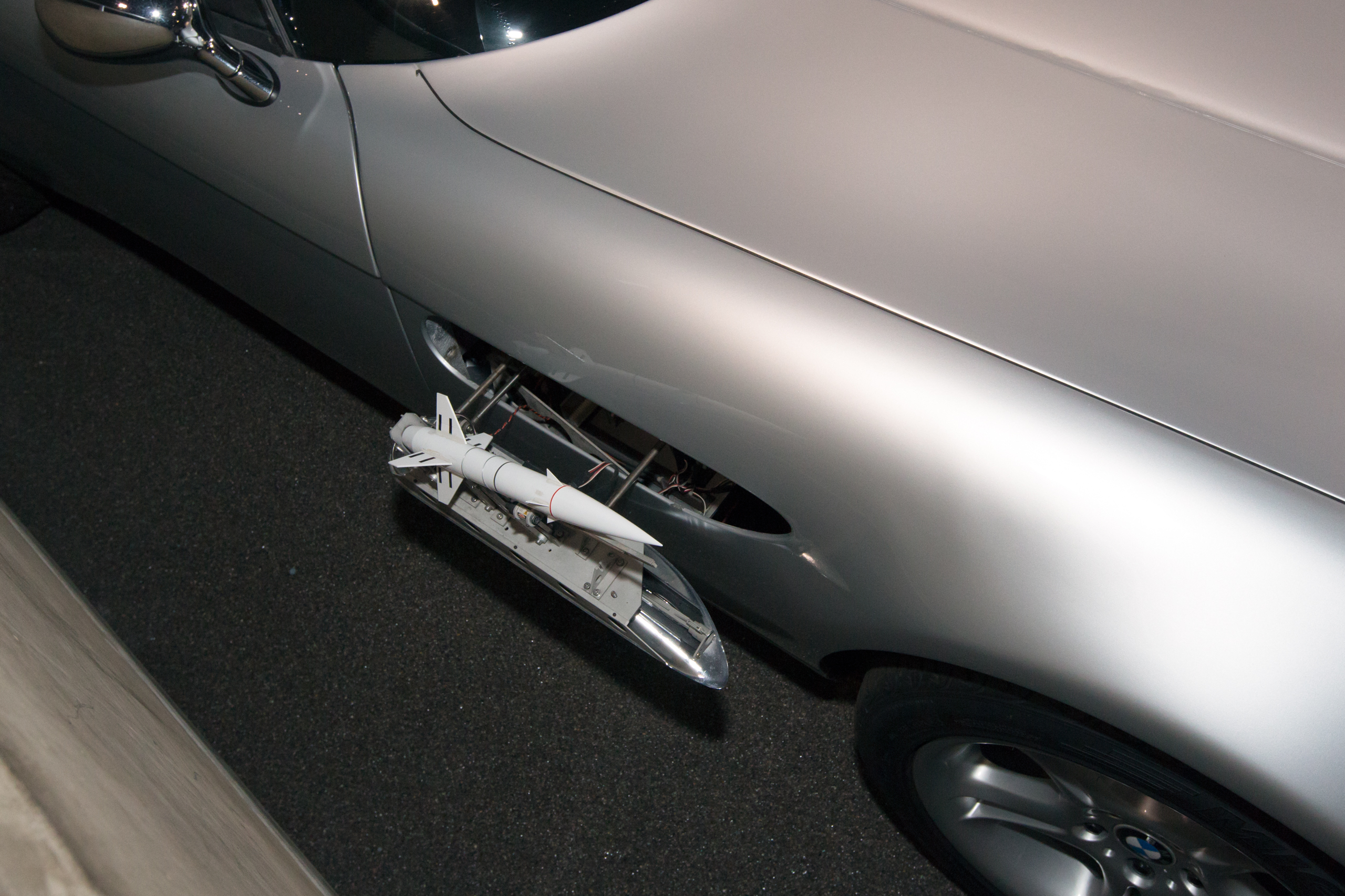 BMW Z8, from "The World Is Not Enough" (1999)